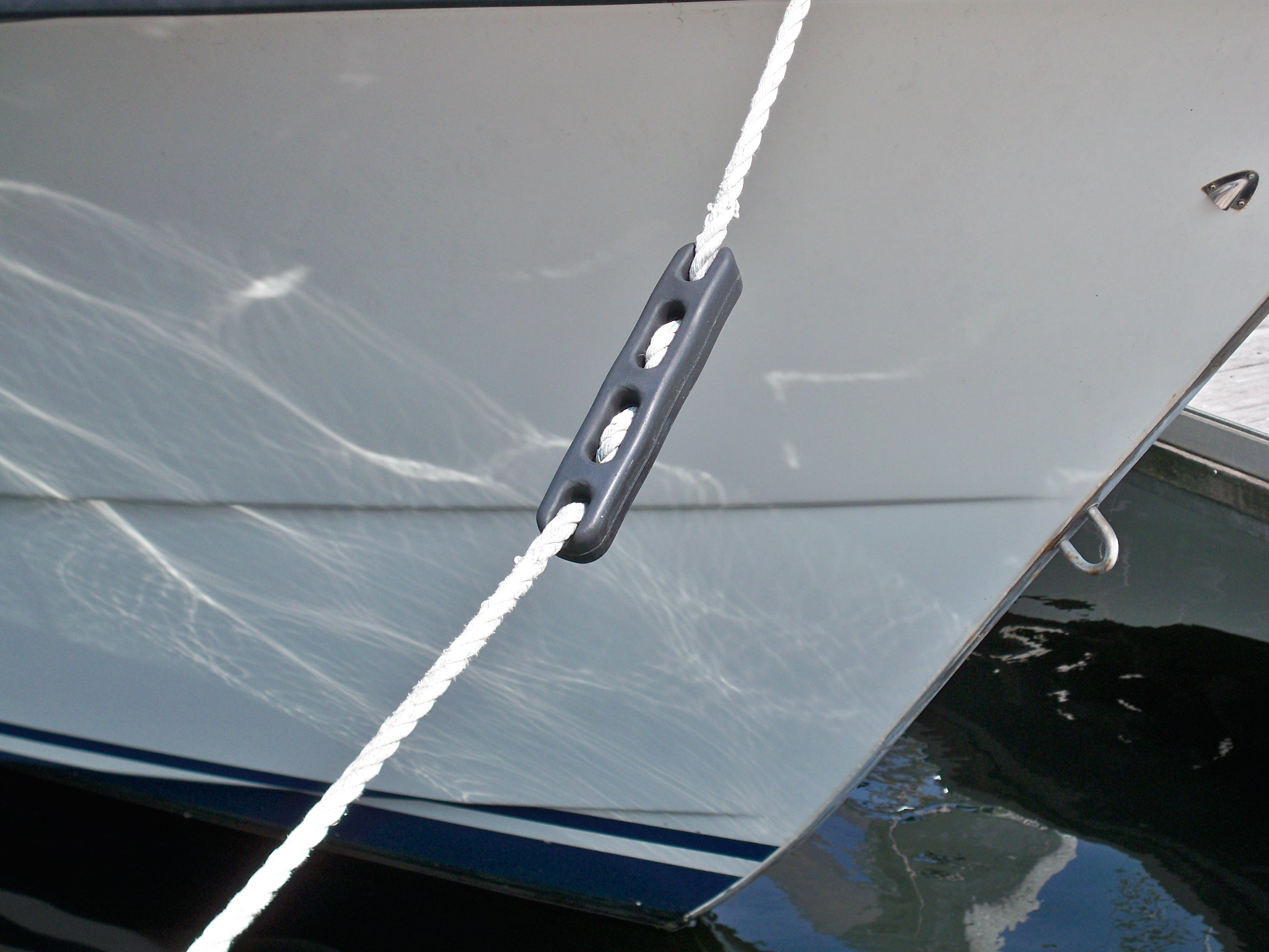 Mooring compensator